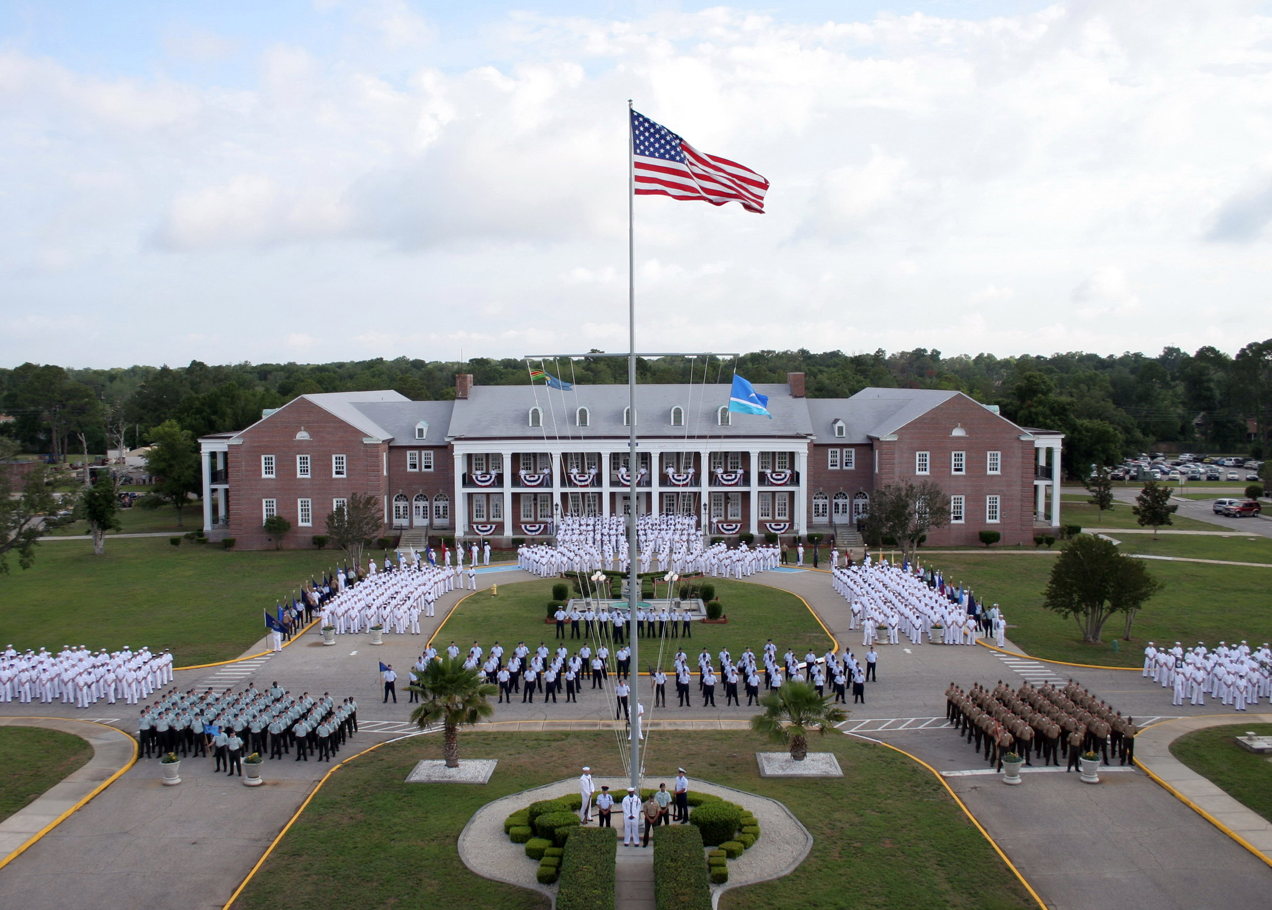 PENSACOLA, Fla. (June 5, 2007) - Sailors, Soldiers, Airmen, Marines, Coast Guardsmen assigned to the Center for Information Dominance (CID) Corry Station participate in the command's annual Battle of Midway Commemoration Ceremony. Nine veterans of the Battle of Midway joined the CID staff members, students and guests to celebrate the decisive victory at Midway. U.S. Navy photo by Cryptologic Technician Maintenance 1st Class Wesley Goodman (RELEASED)